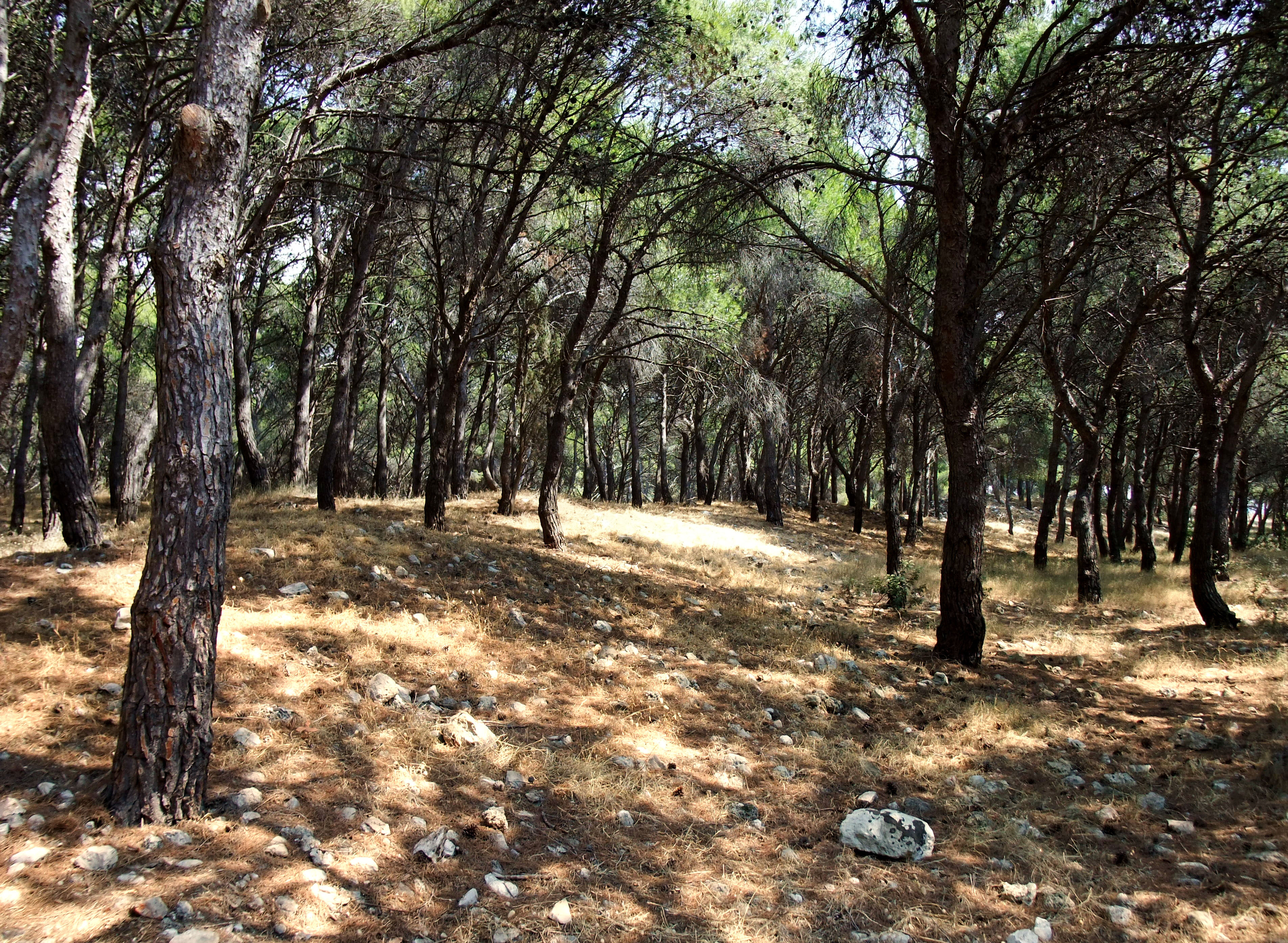 Pine forest in the nature reserve Porto Selvaggio north of Gallipoli, Apulia, southern Italy